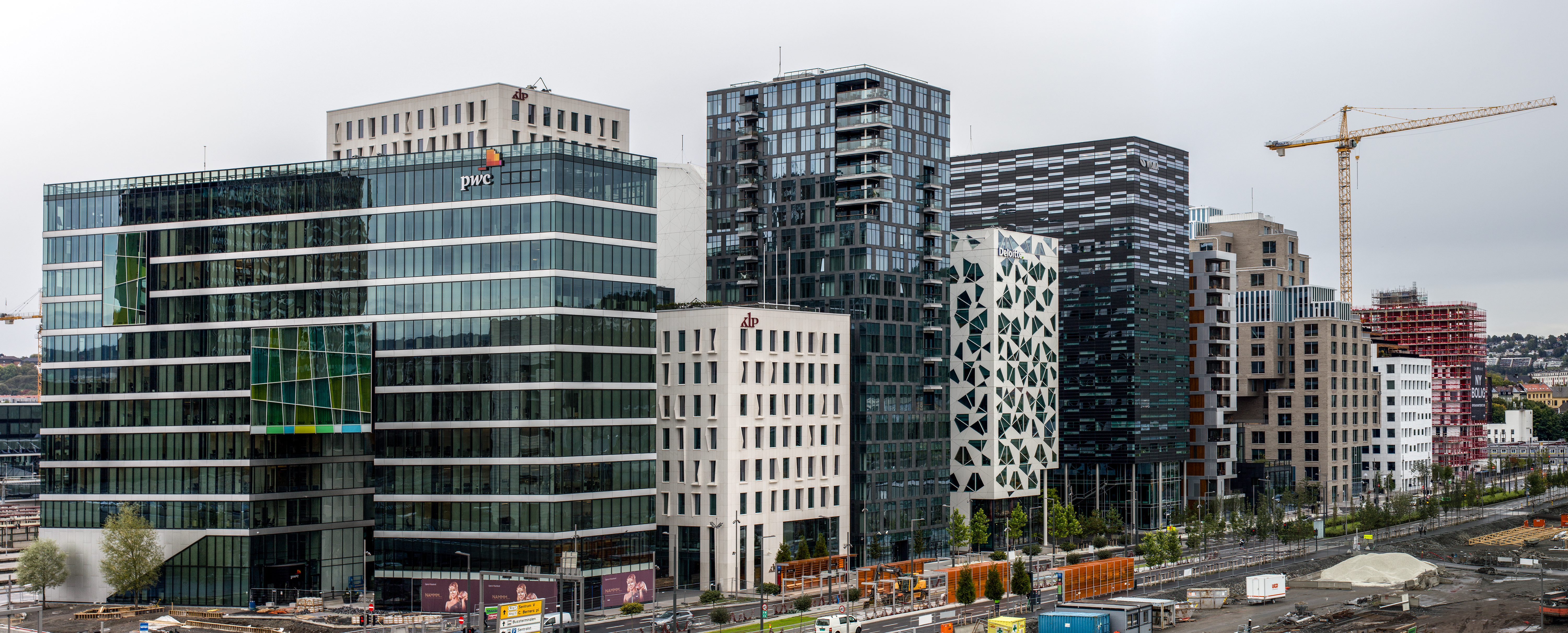 The Barcode Project is a section of the Bjørvika portion of the Fjord City redevelopment on former dock and industrial land in central Oslo.